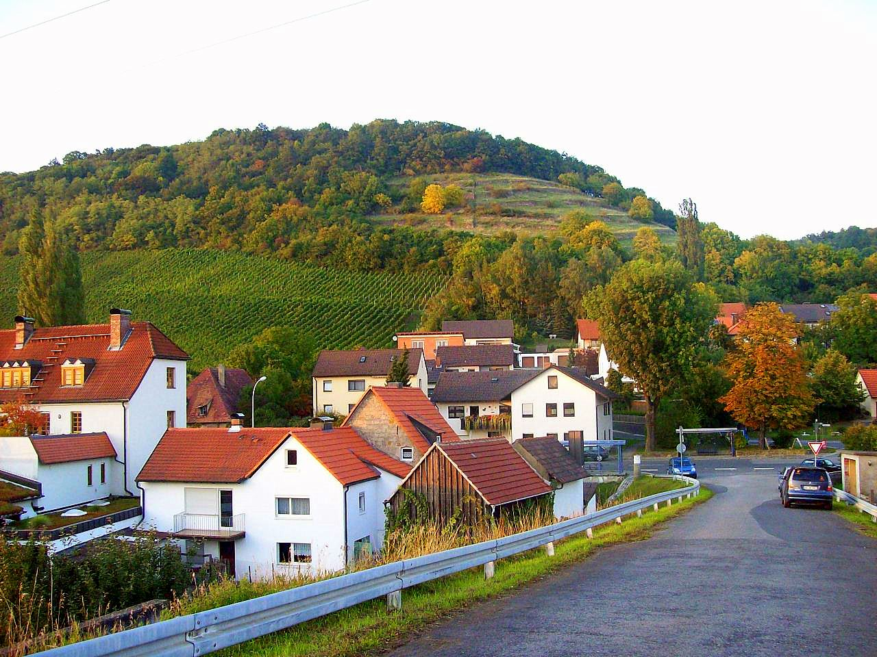 Partial view of Ziegelanger (borough of Zeil am Main and the vineyards in the background.